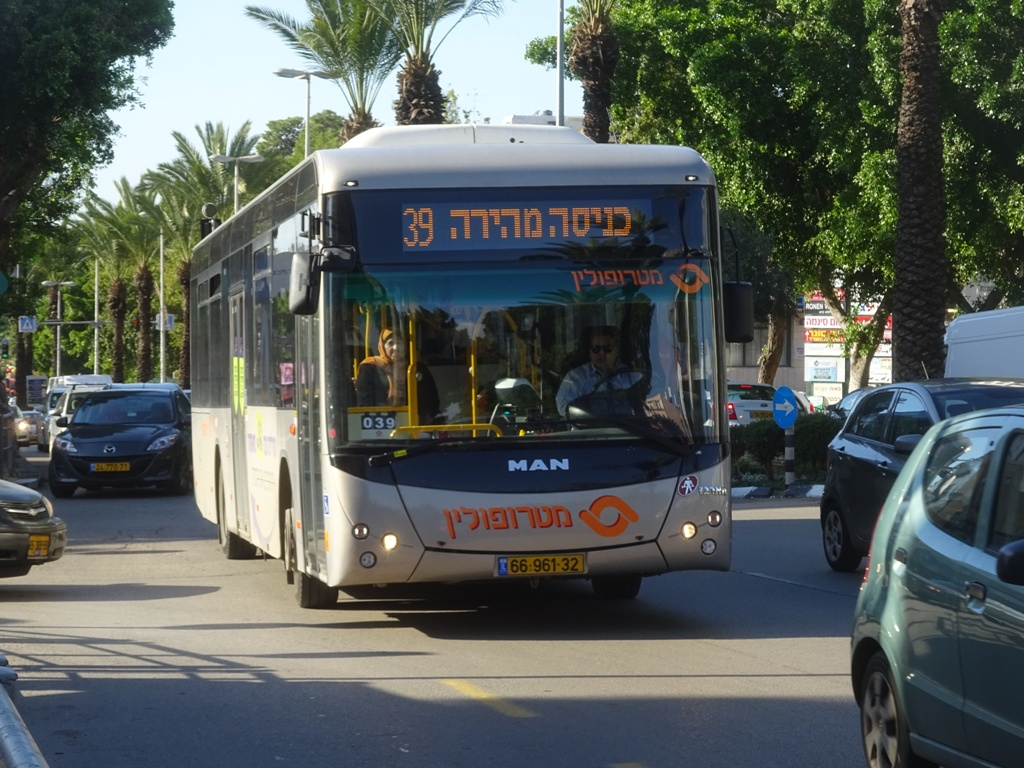 A Metropoline MAN A69 bus on route 39 in Ra'anana